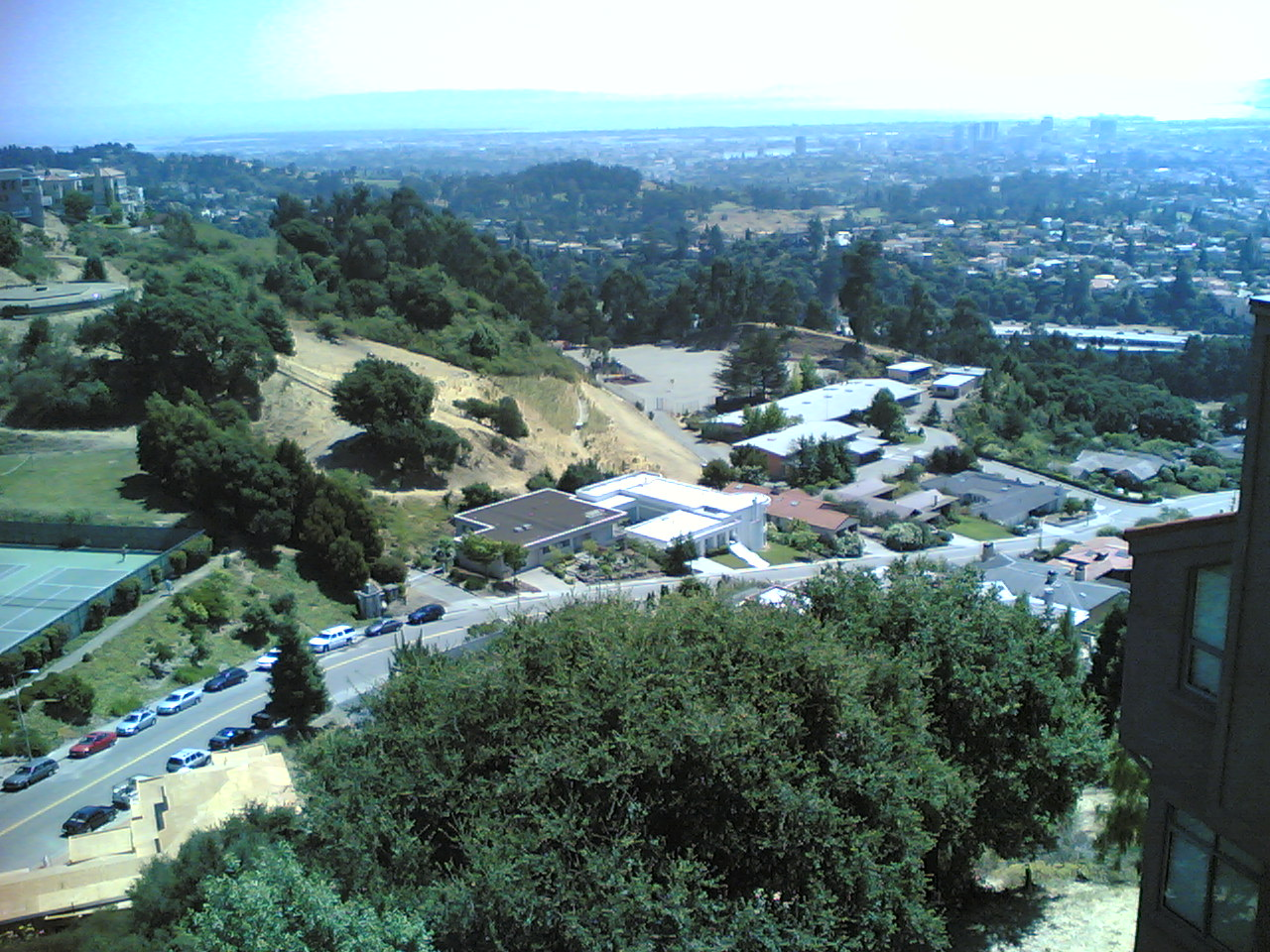 Piedmont, California